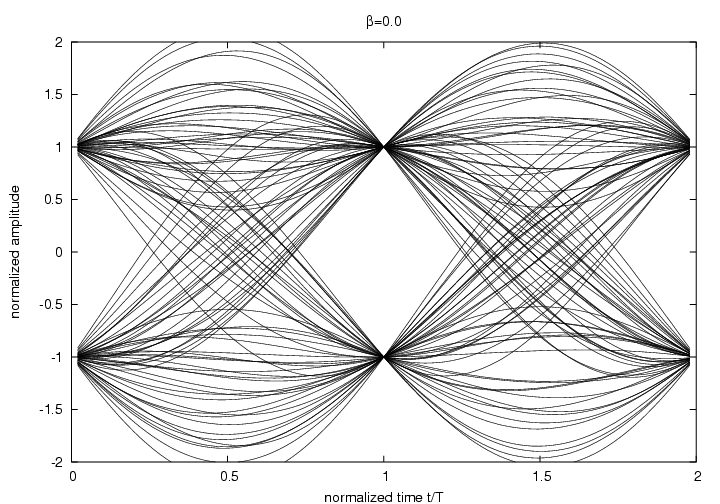 Eye diagrams of raised-consine filter with roll-off factor 0